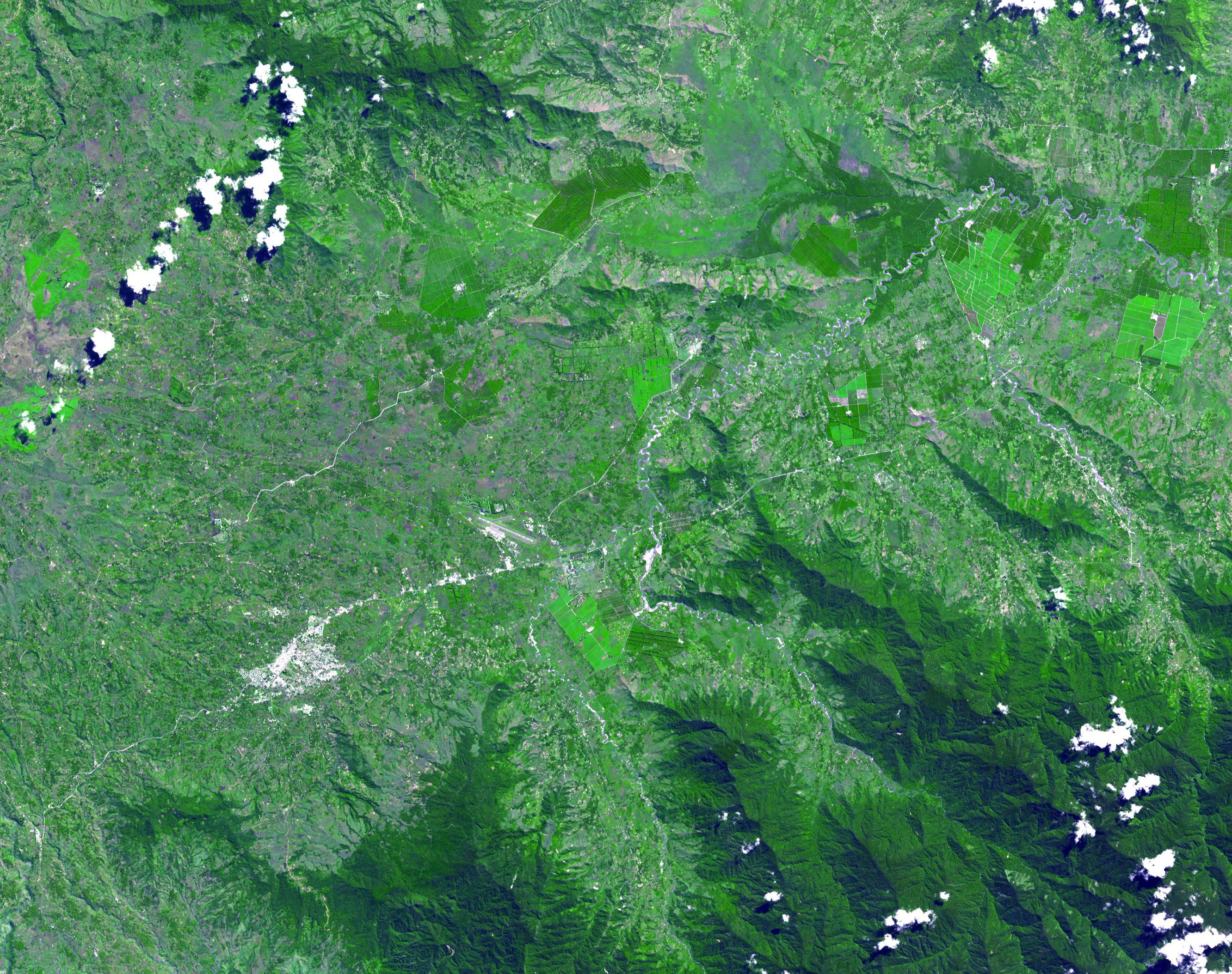 The Kuk Early Agricultural Site consists of 116 ha of swamps in the western highlands of New Guinea 1,500 meters above sea-level. Archaeological excavation has revealed the landscape to be one of wetland reclamation worked almost continuously for 7,000, and possibly for 10,000 years. The area was declared a UNESCO World Heritage Site in 2008. The image was acquired May 7, 2002, covers an area of 31.6 x 40 km, and is located at 5.8° S, 144.3° E.